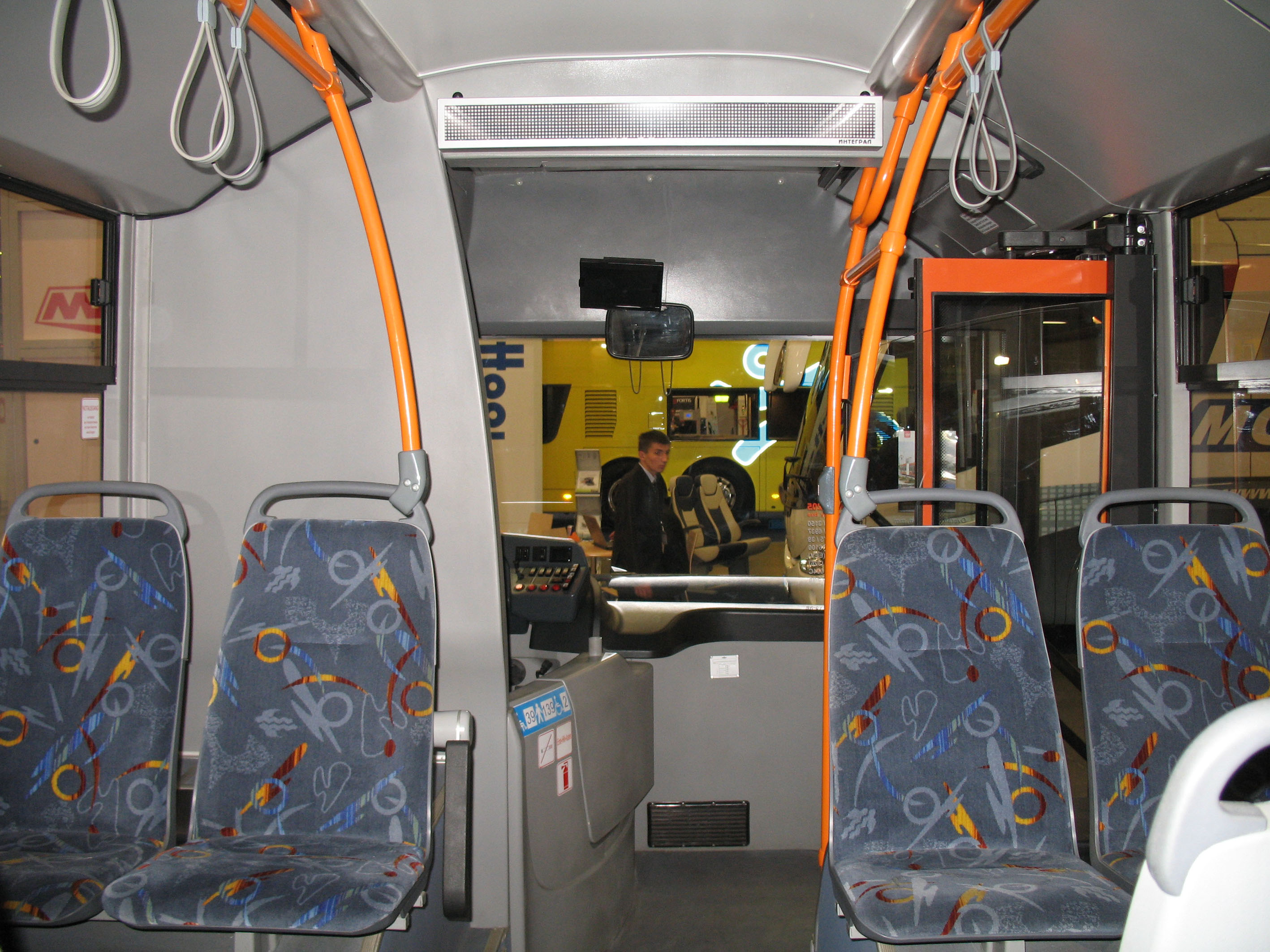 MAZ 205 (orginal name МАЗ 205) city bus interior (reg. 7EKT2488) in Kielce, Poland. Built 2009, Transexpo 2010.